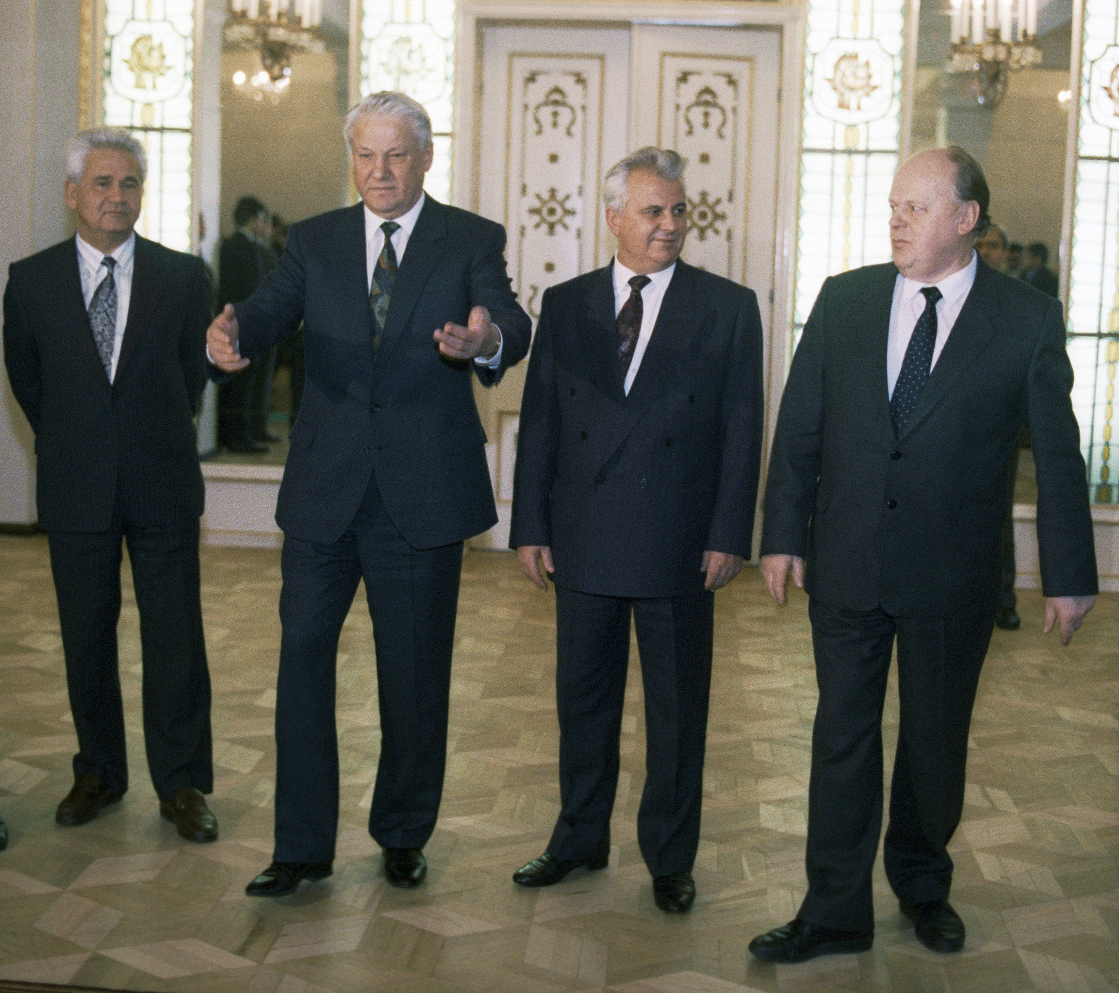 “Yeltsin, Kravchuk and Shushkevich”. Russian President Boris Yeltsin (second left), Ukrainian President Leonid Kravchuk (second right) and Chairman of the Byelorussian Supreme Council Stanislav Shushkevich (right) in Belovezhskaya Pushcha at the signing of the Agreement establishing the CIS (Commonwealth of Independent States).